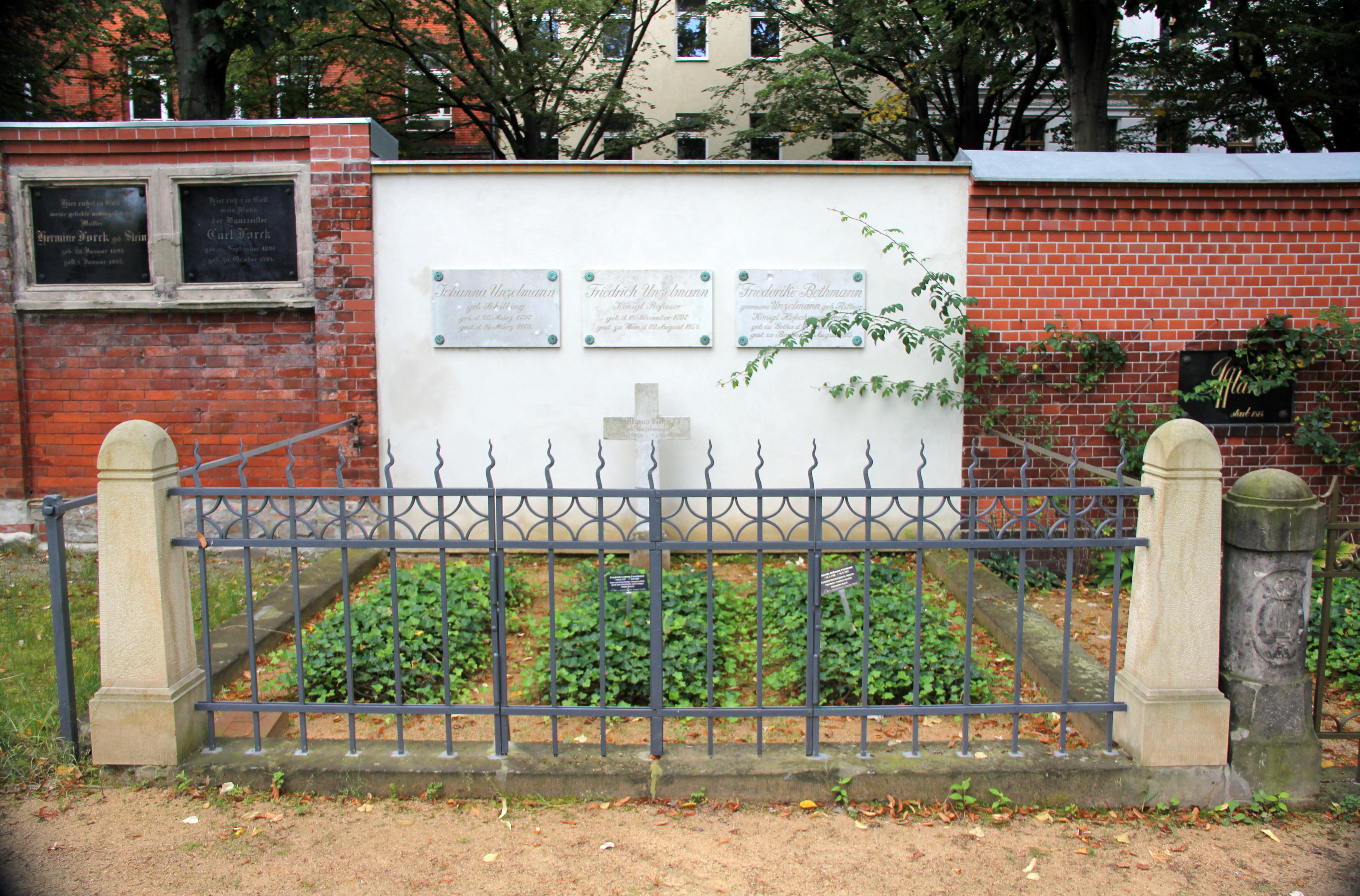 Grave of honor, Friedrich Ludwig Unzelmann and Friederike Bethmann-Unzelmann, Mehringdamm 21, Berlin-Kreuzberg, Germany